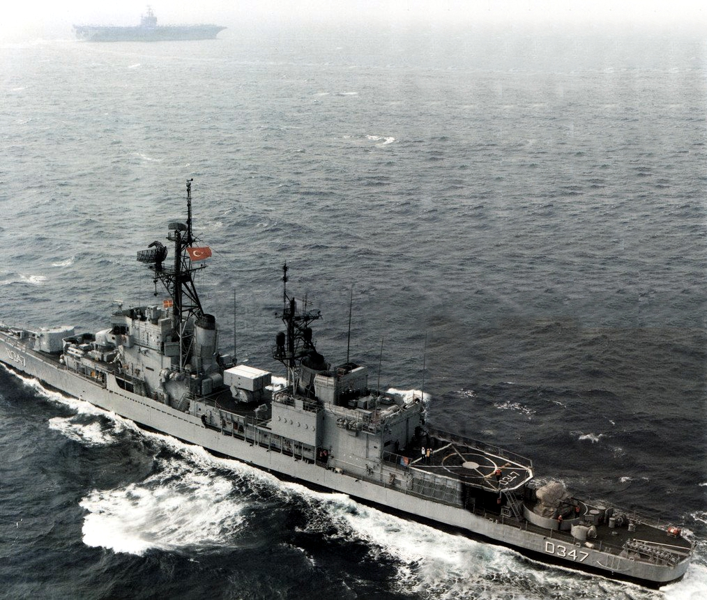 The Turkish destroyer TCG Anıttepe (D-347) underway in the Mediterranean Sea, in 1988. The U.S. Navy aircraft carrier USS Dwight D. Eisenhower (CVN-69) is visible in the background.